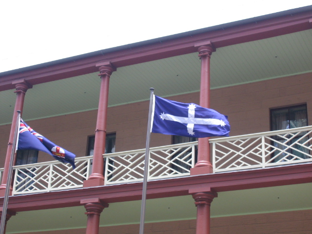 The Eureka Flag flying from the NSW Parliament Building in Macquarie Street, Sydney, on Friday December 3rd 2004.